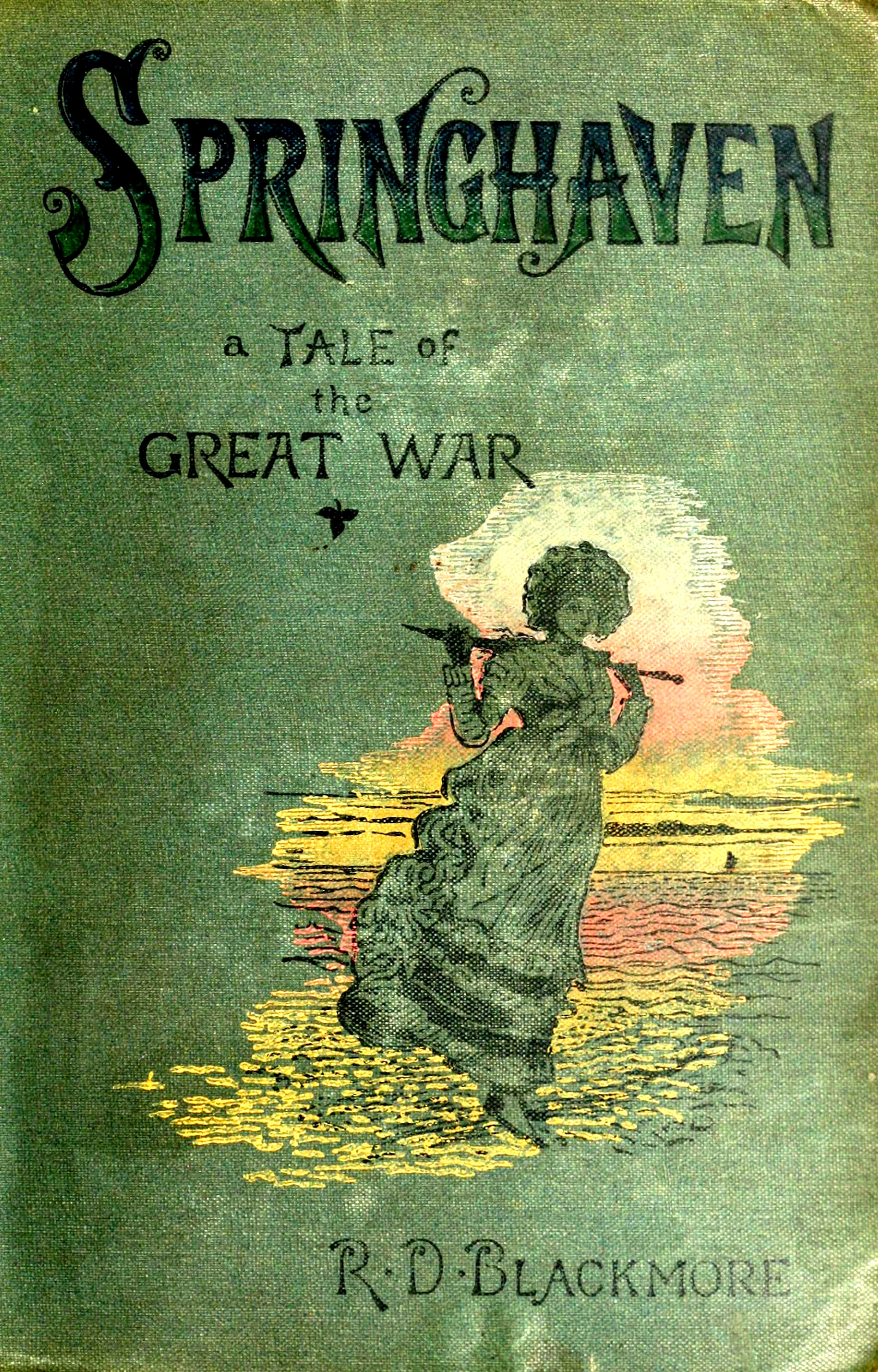 Cover of the novel Springhaven by R. D. Blackmore. The novel, and this book cover, was published in 1887.